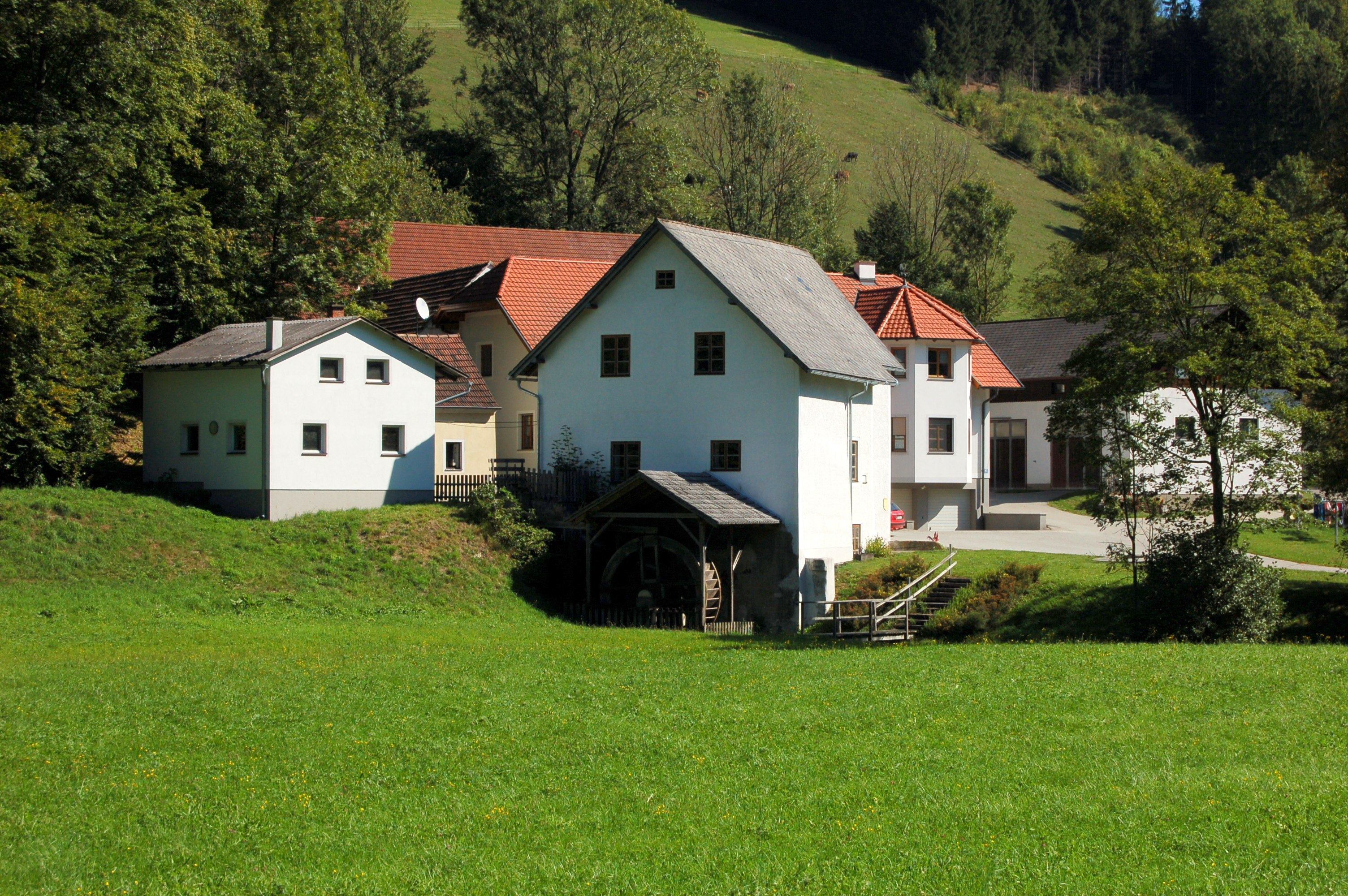 Fahrnermühle (Fahrner's Mill) in Spratzau, municipality Lichtenegg, Lower Austria